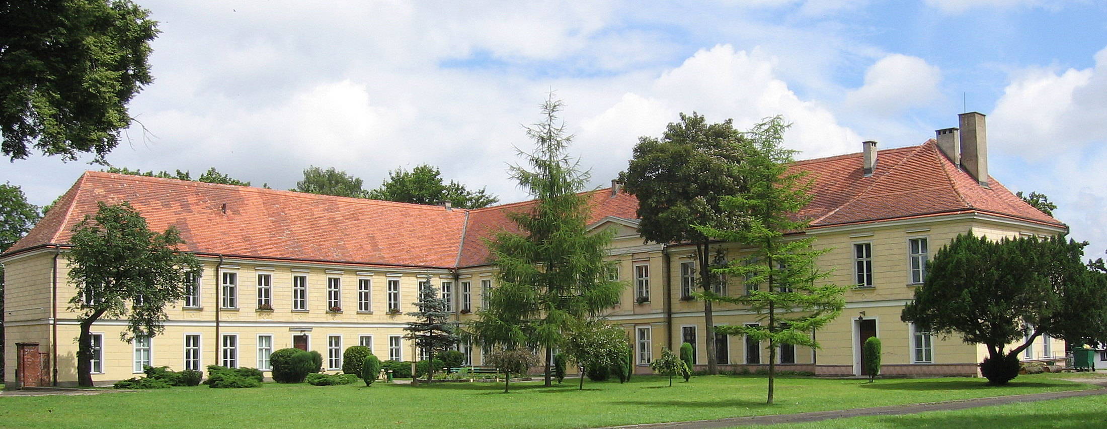 Palace in Trzebiatów, Poland